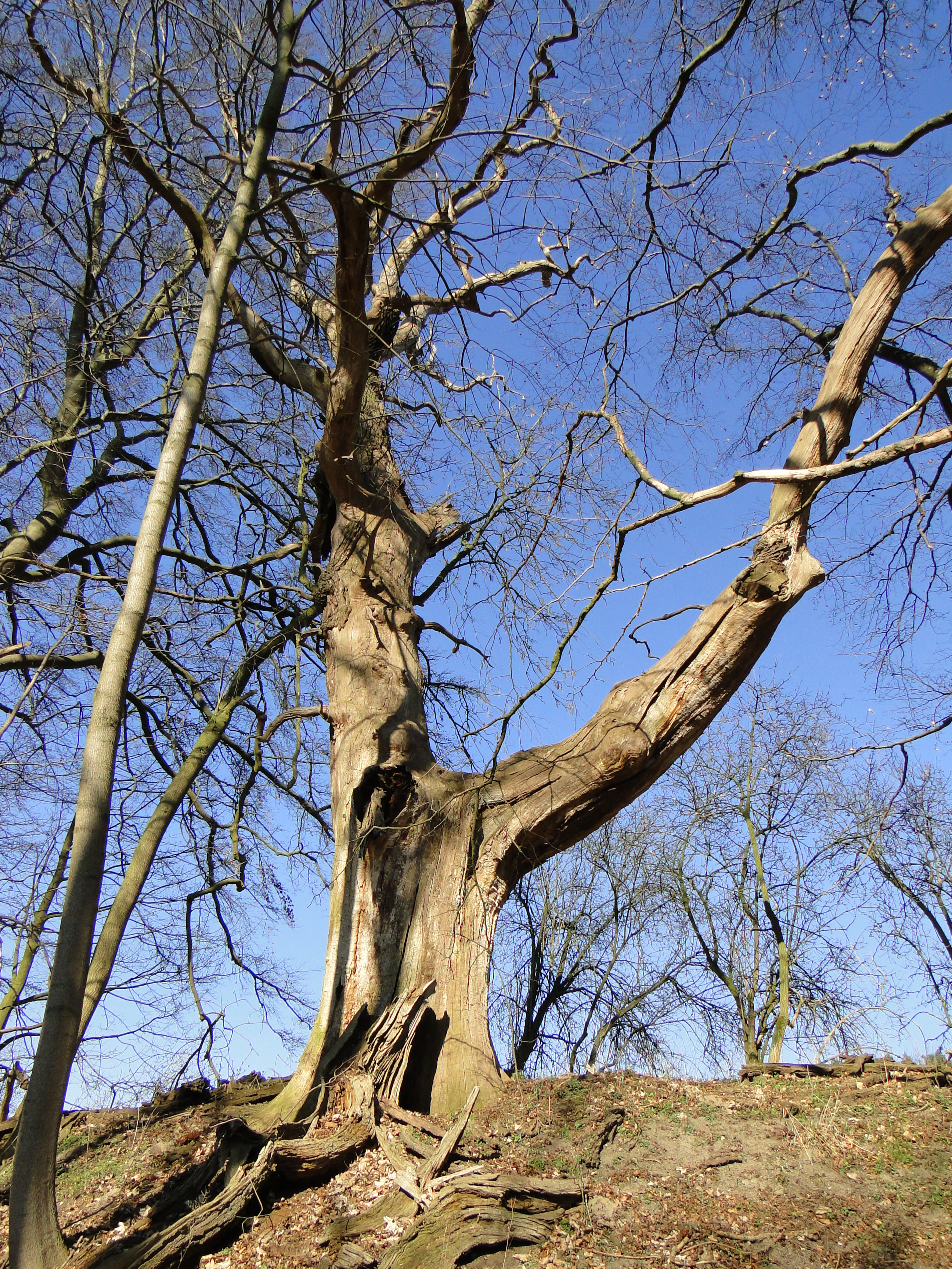 Wends' oak near Lüschow (Goldberg), district Ludwigslust-Parchim, Mecklenburg-Vorpommern, Germany